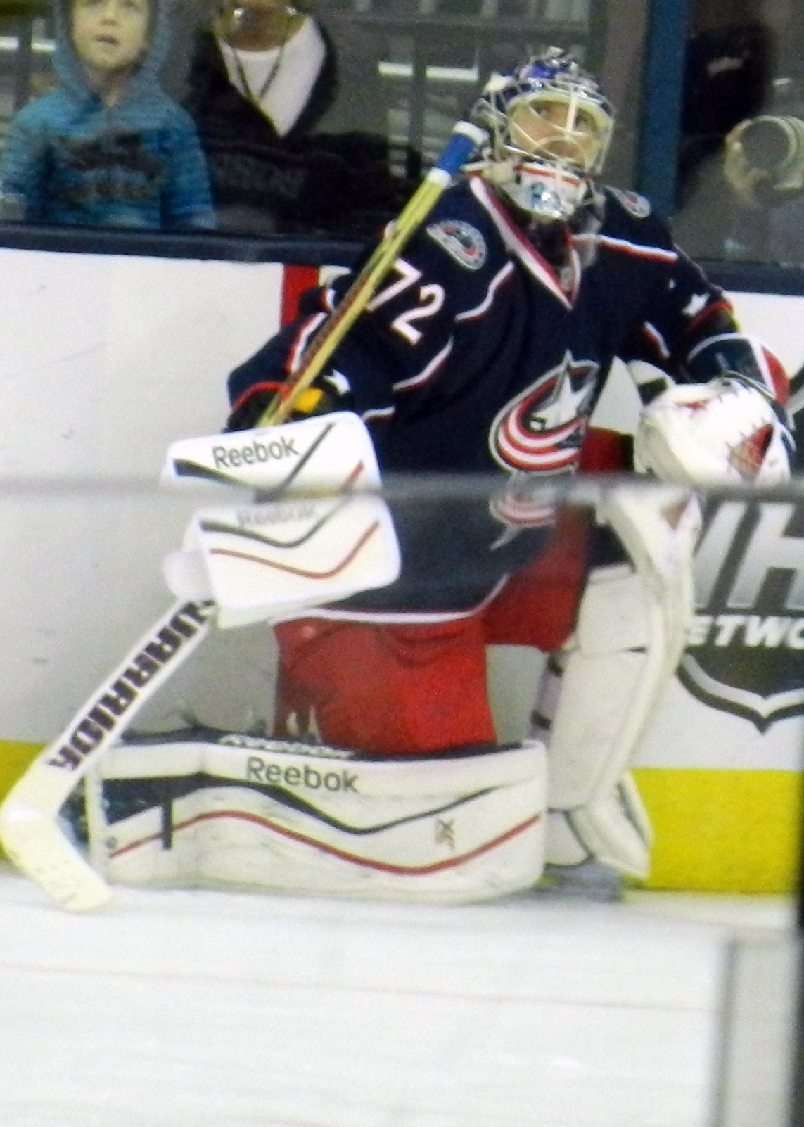 Sergei Bobrovsky with the Columbus Blue Jackets in warm-ups during the 2013-14 season